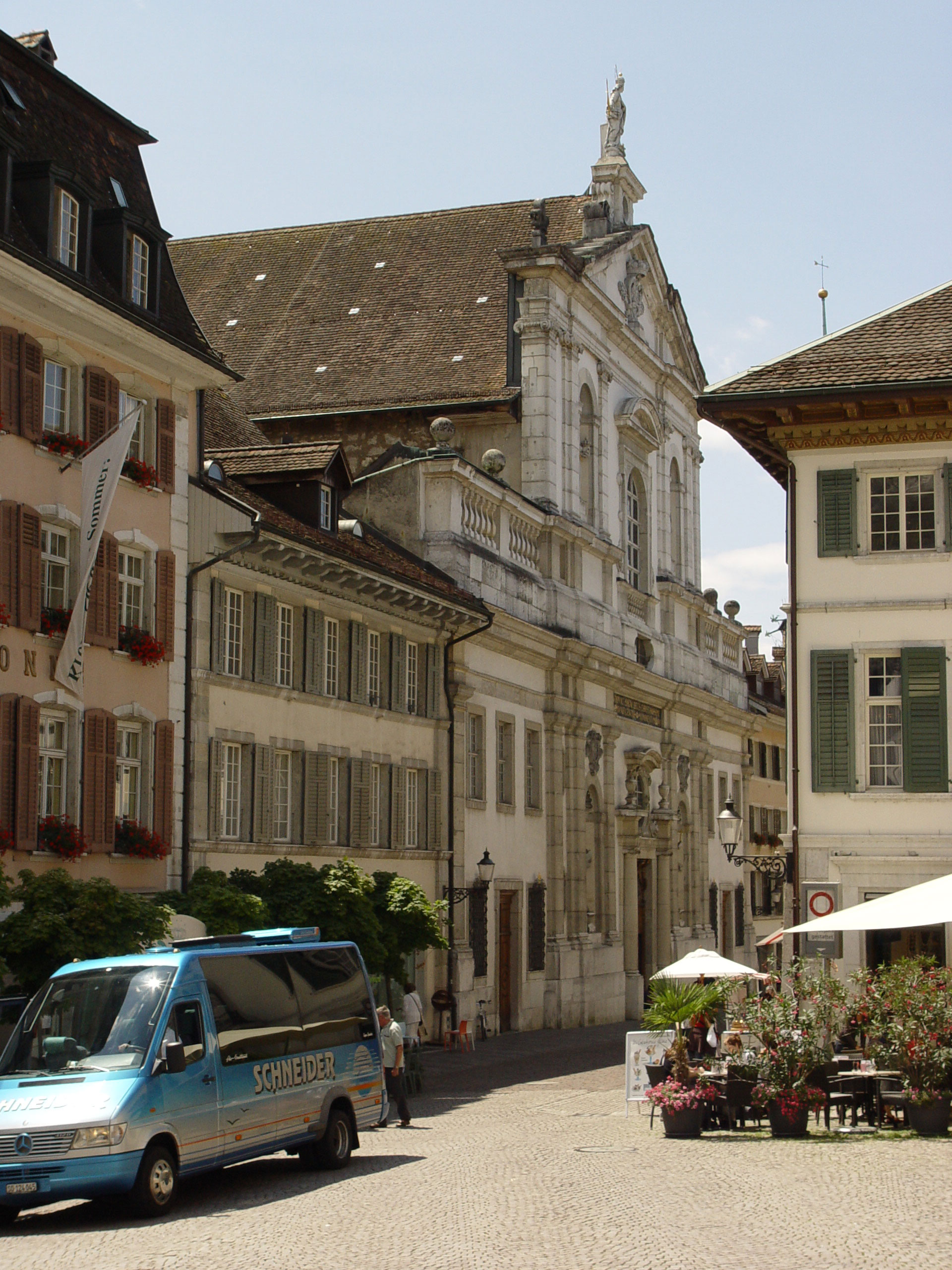 Church of Solothurn